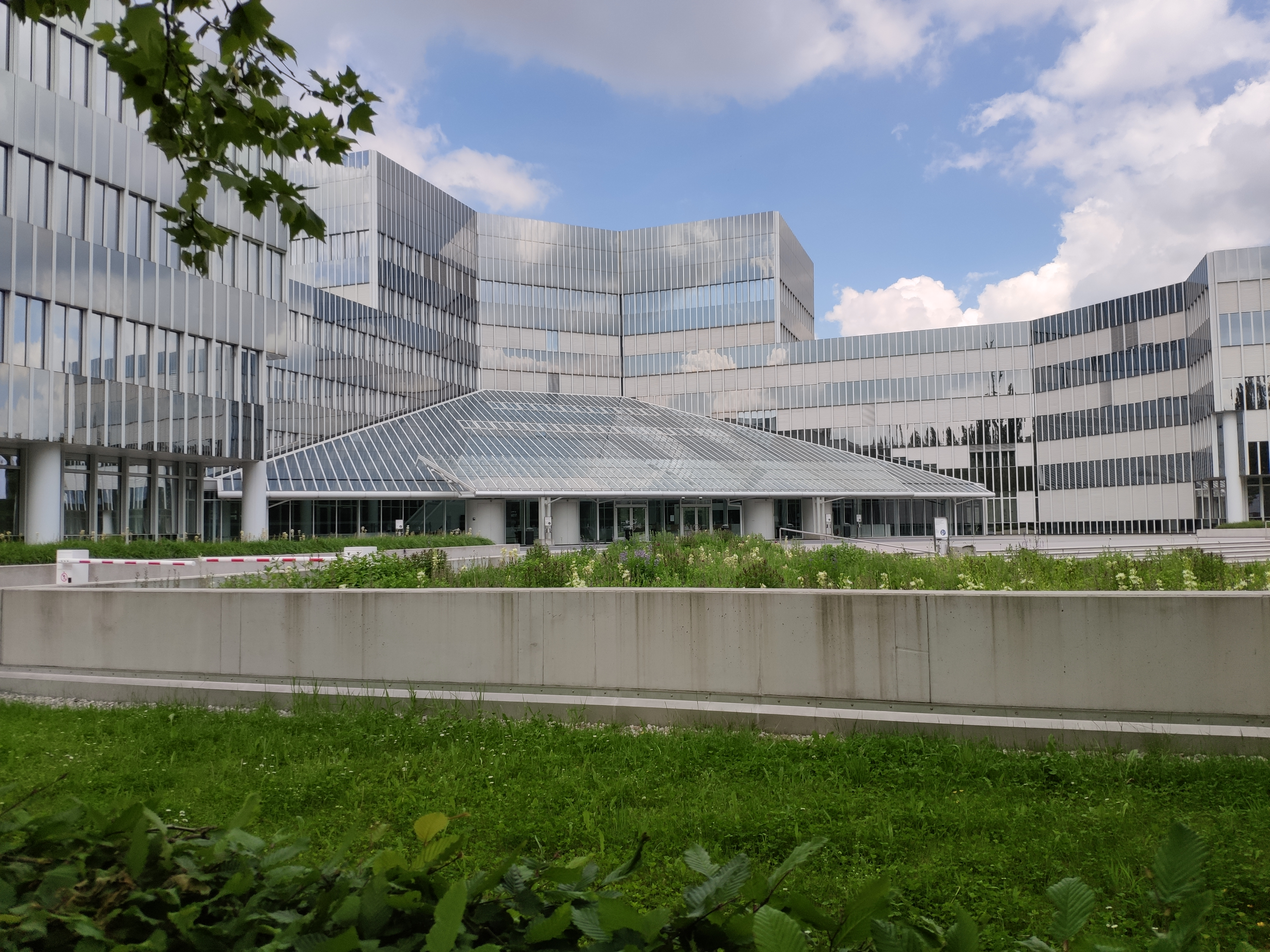 BMW FIZ